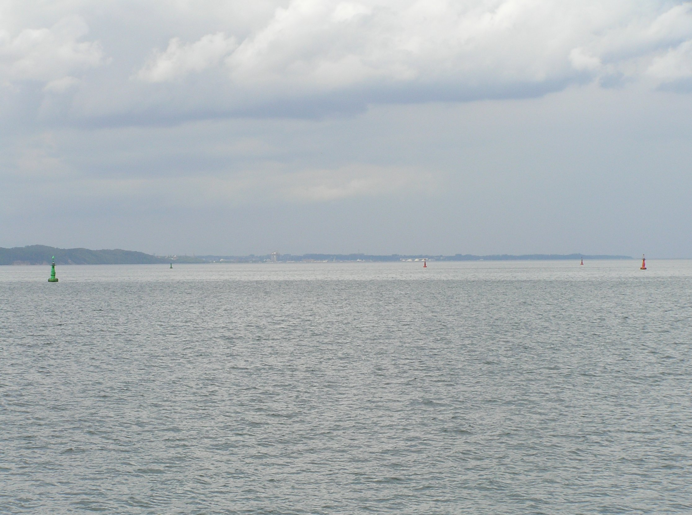 Lateral sea marks on the Gulf of Gdańsk.